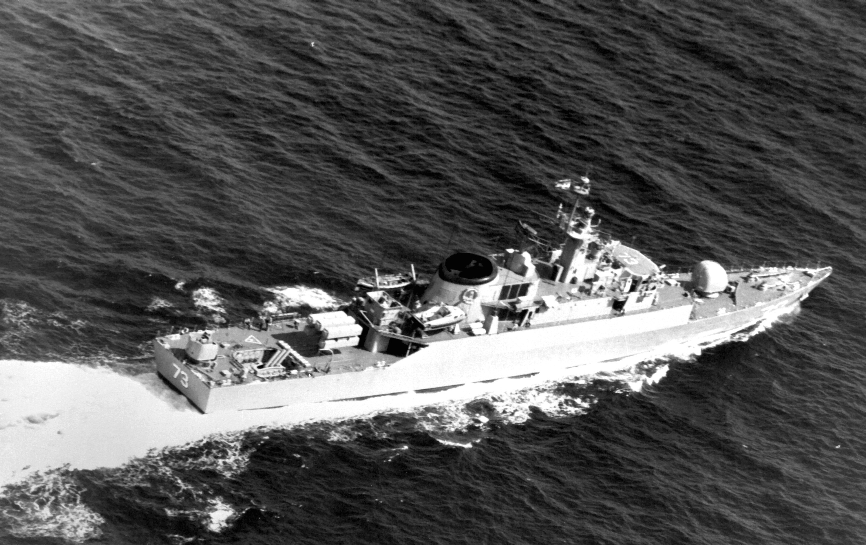 A starboard quarter view of the Iranian destroyer escort ITS ROSTAM (DE-73), now redesignated the frigate IS SABALAN (F-73). NOTE: This vessel was heavily damaged on 19 April 1988 by air attack of units of CVW-11 from the USS ENTERPRISE (CVN-65) in retaliation for the mining of the USS SAMUEL B. ROBERTS (FFG-58) in the Persian Gulf. The ship was reported under repair but as of 1991 has not yet been seen in service.